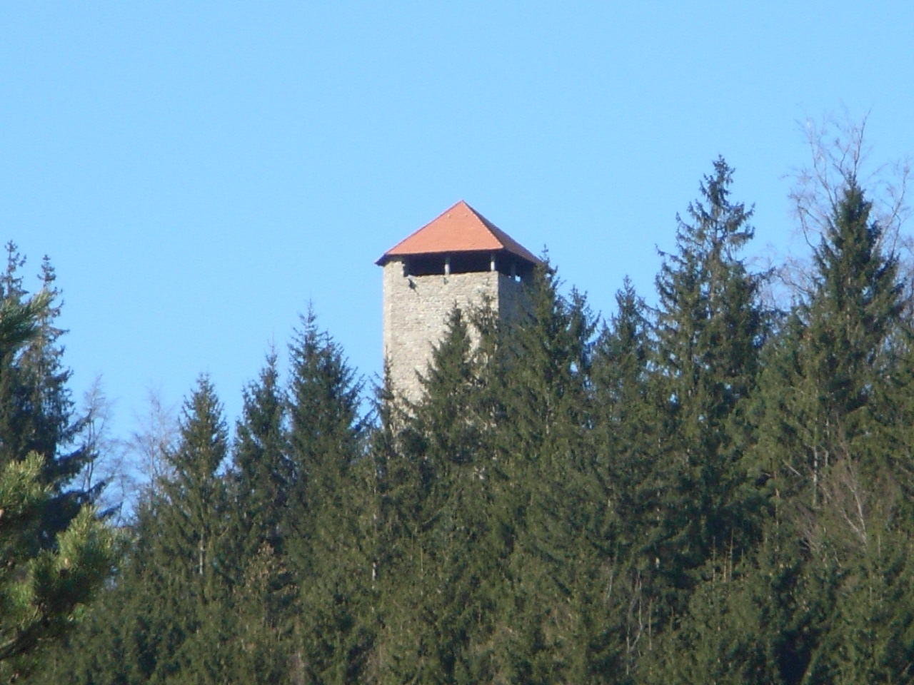 Keep of Altnußberg Castle.